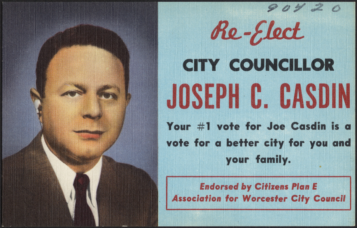 File name: 06_10_022910 Title: Re-elect city councillor Joseph C. Casdin. Your #1 vote for Joe Casdin is a vote for a better city for you and your family. Date issued: 1930 - 1945 (approximate) Physical description: 1 print (postcard) : linen texture, color ; 3 1/2 x 5 1/2 in. Genre: Postcards Subject: Political campaigns; Politicians Notes: Title from item. Collection: The Tichnor Brothers Collection Location: Boston Public Library, Print Department Rights: No known restrictions